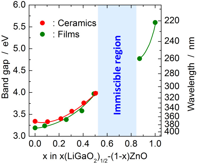 Band gap variation as a function of x in the (1 − x)ZnO–x(LiGaO2)1/2 pseudo-binary system. The red dots and green dots indicate the band gaps determined for the ceramics and the films, respectively. The blue rectangle indicates a two phase region of Zn2LiGaO4 and β-LiGaO2 solid solutions. Although the boundary of the wurtzite-type phase and Zn2LiGaO4-type phase is between x = 0.1 and 0.2, all data are connected by one line, because both the phases are based on the wurtzite structure.